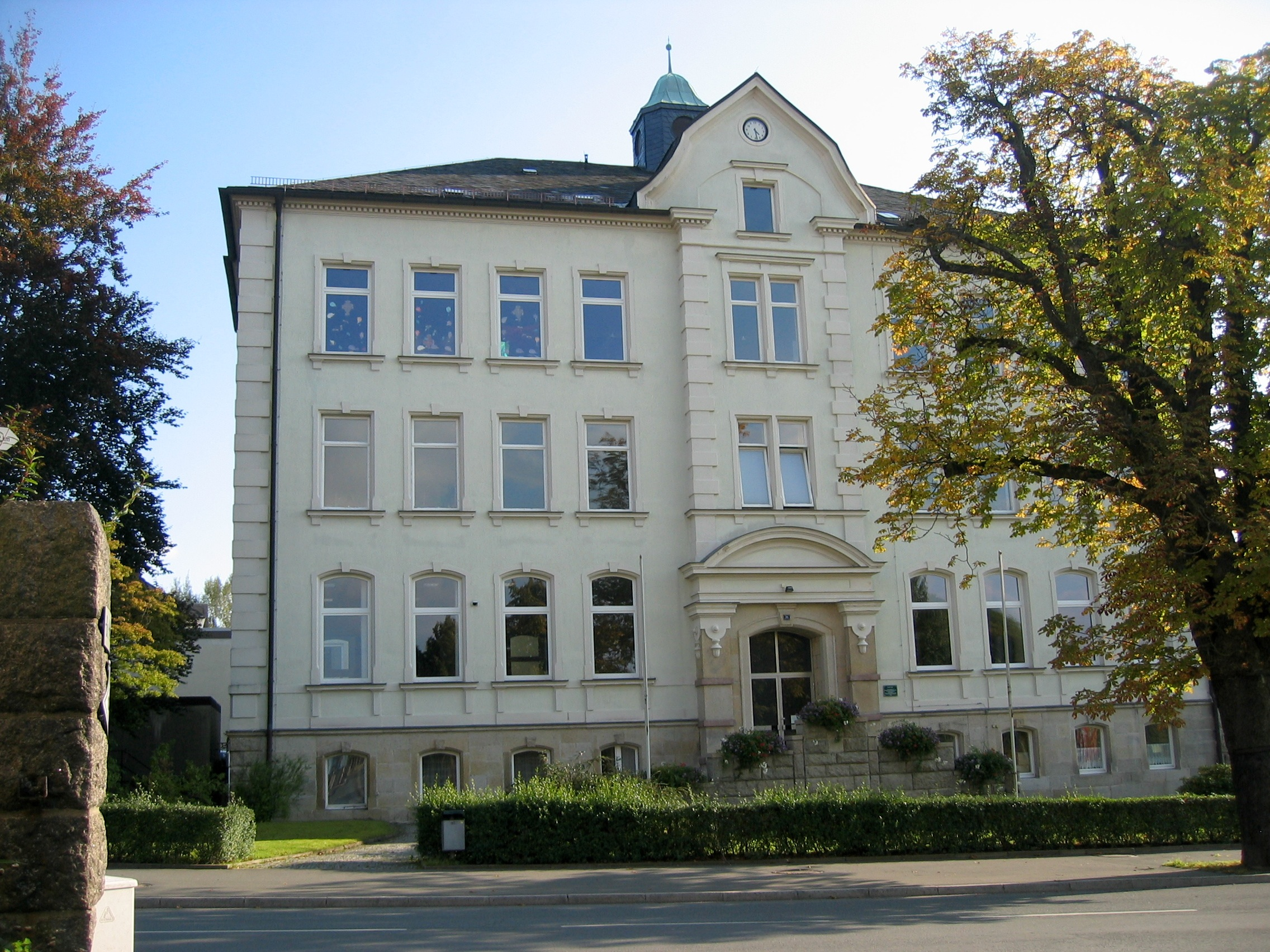 primary school of Münchberg